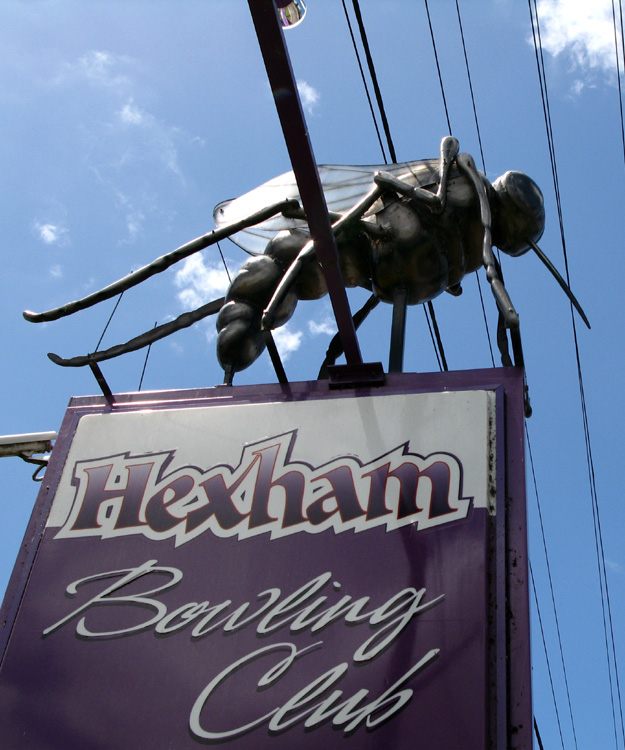 The Big Mosquito at the entrance to Hexham (NSW) Bowls Club.